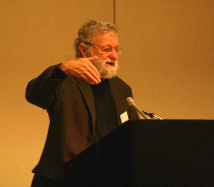 Donald Norman at About, With and For 2005